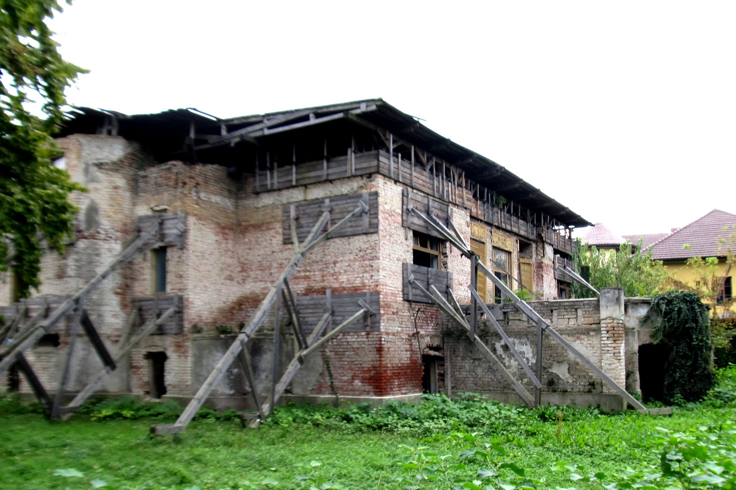 Mühle House (built XIX century) in Timișoara, Romania, 2016